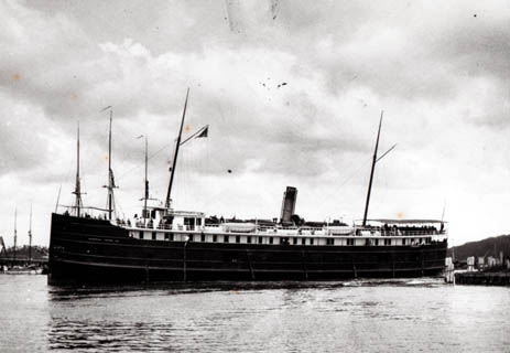 The steamer Atlanta prior to burning down